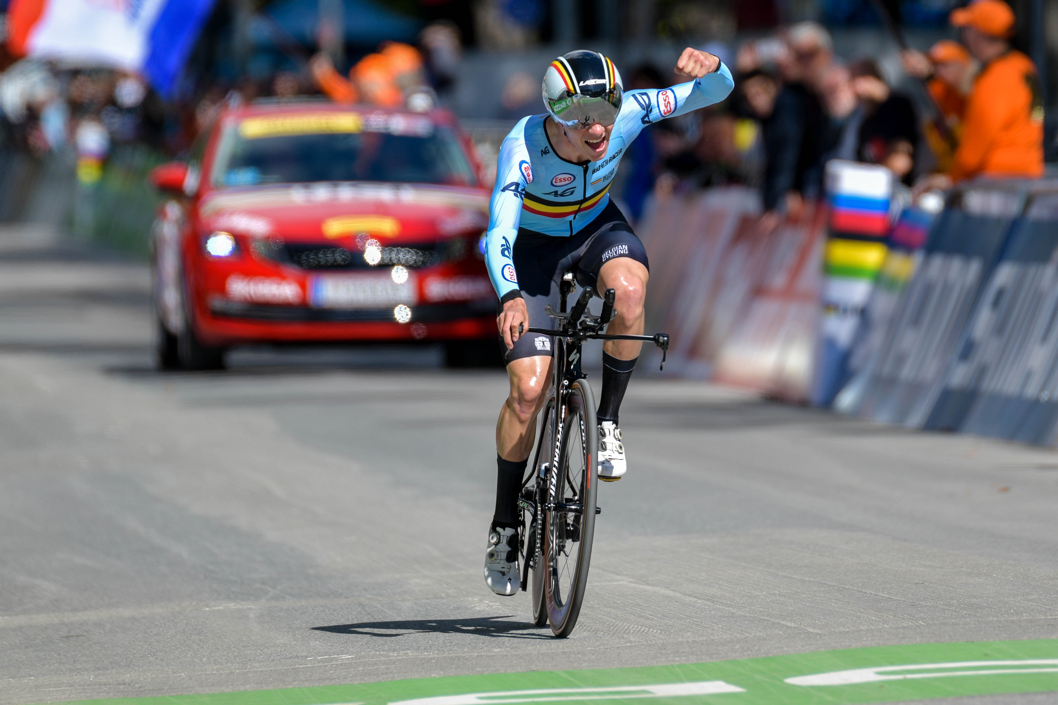 2018 UCI Road World Championships Innsbruck/Tirol Men Juniors Individual Time Trial. Picture shows: Remco Evenepoel (BEL)